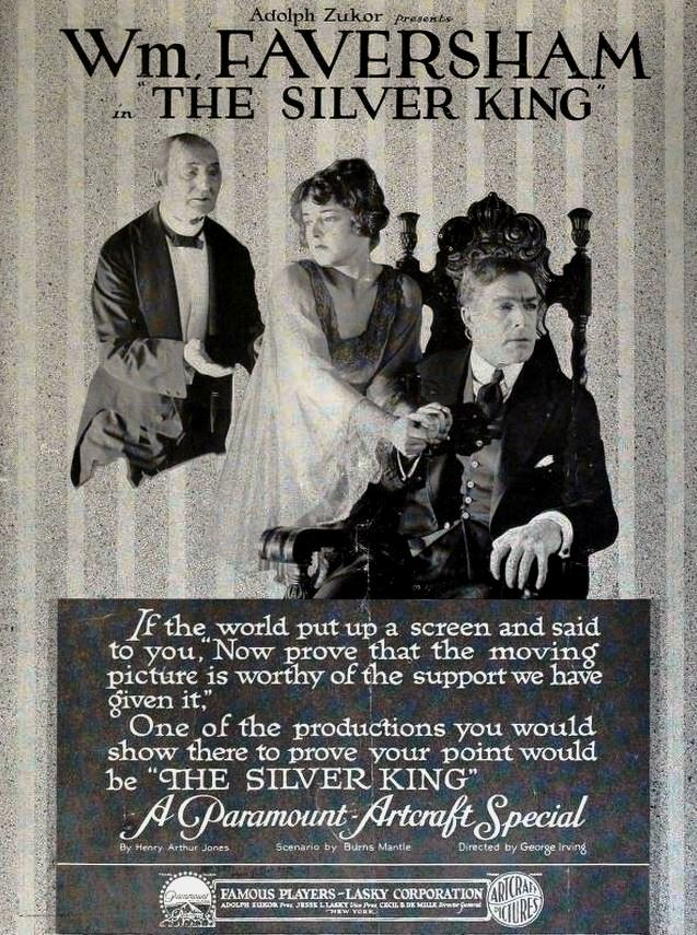 Advertisement for the American drama film The Silver King (1919) with an unidentified actor, Barbara Castleton, and William Faversham, on the inside front cover to the January 5, 1919 Film Daily.